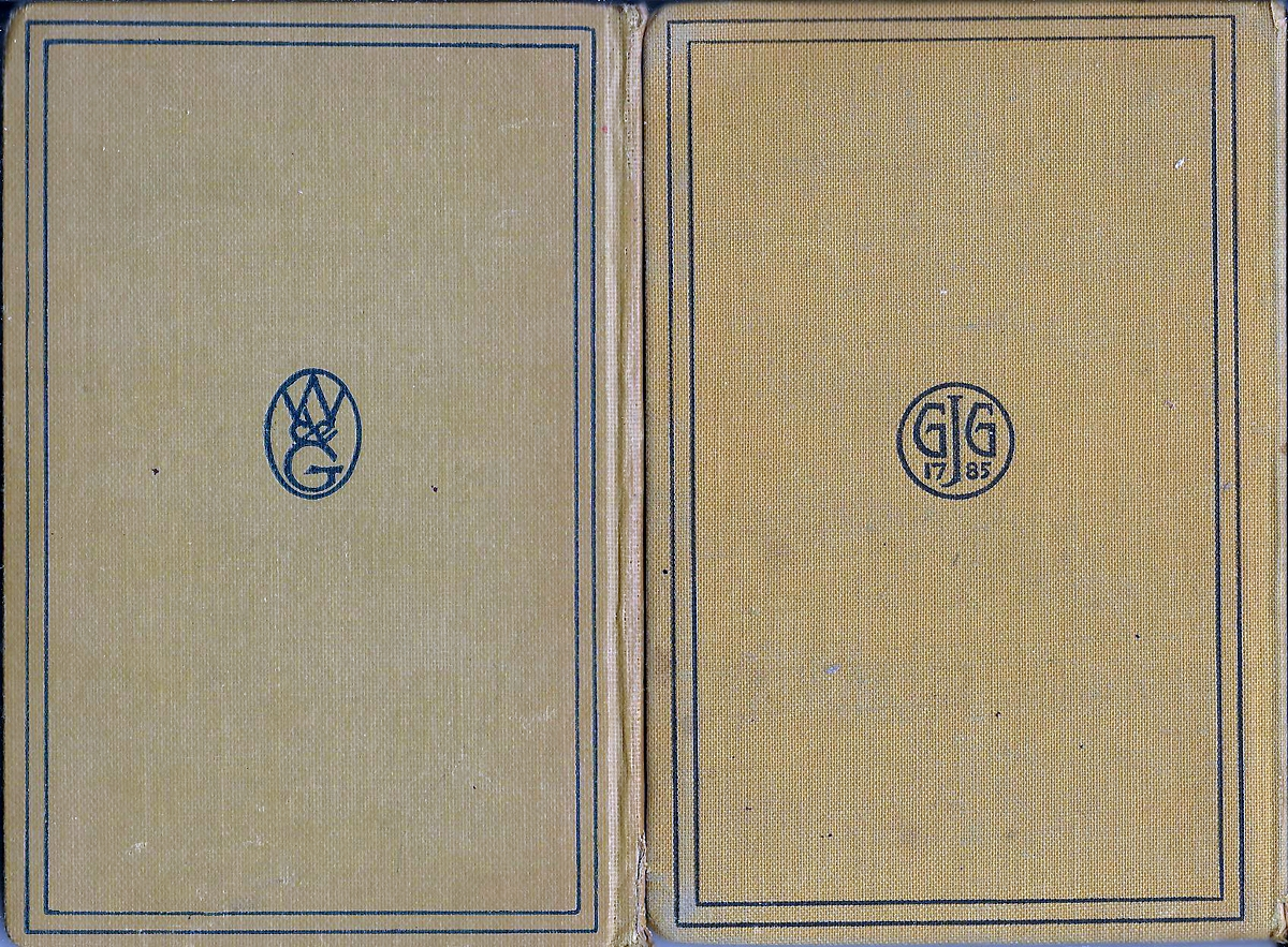 The books' back sides of Volume 375 of Goeschen collection: left: edition of 1934 right: edition of 1914